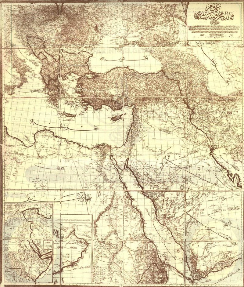 Abdul Hamid II maps